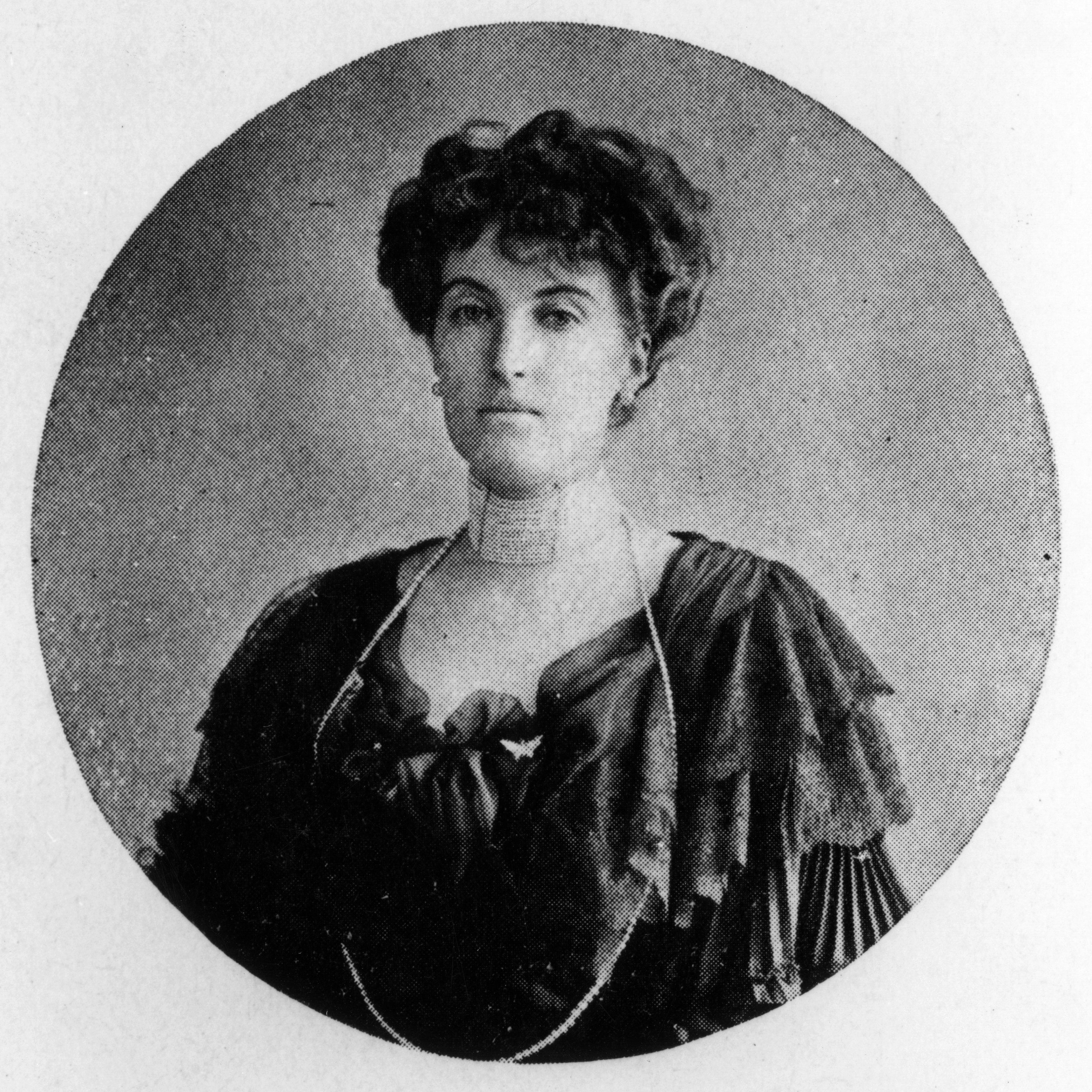 Marguerite Mary 'Lady Daisy' Barones van Brienen van de Groote Lindt (The Hague 1871 - The Hague 1939)